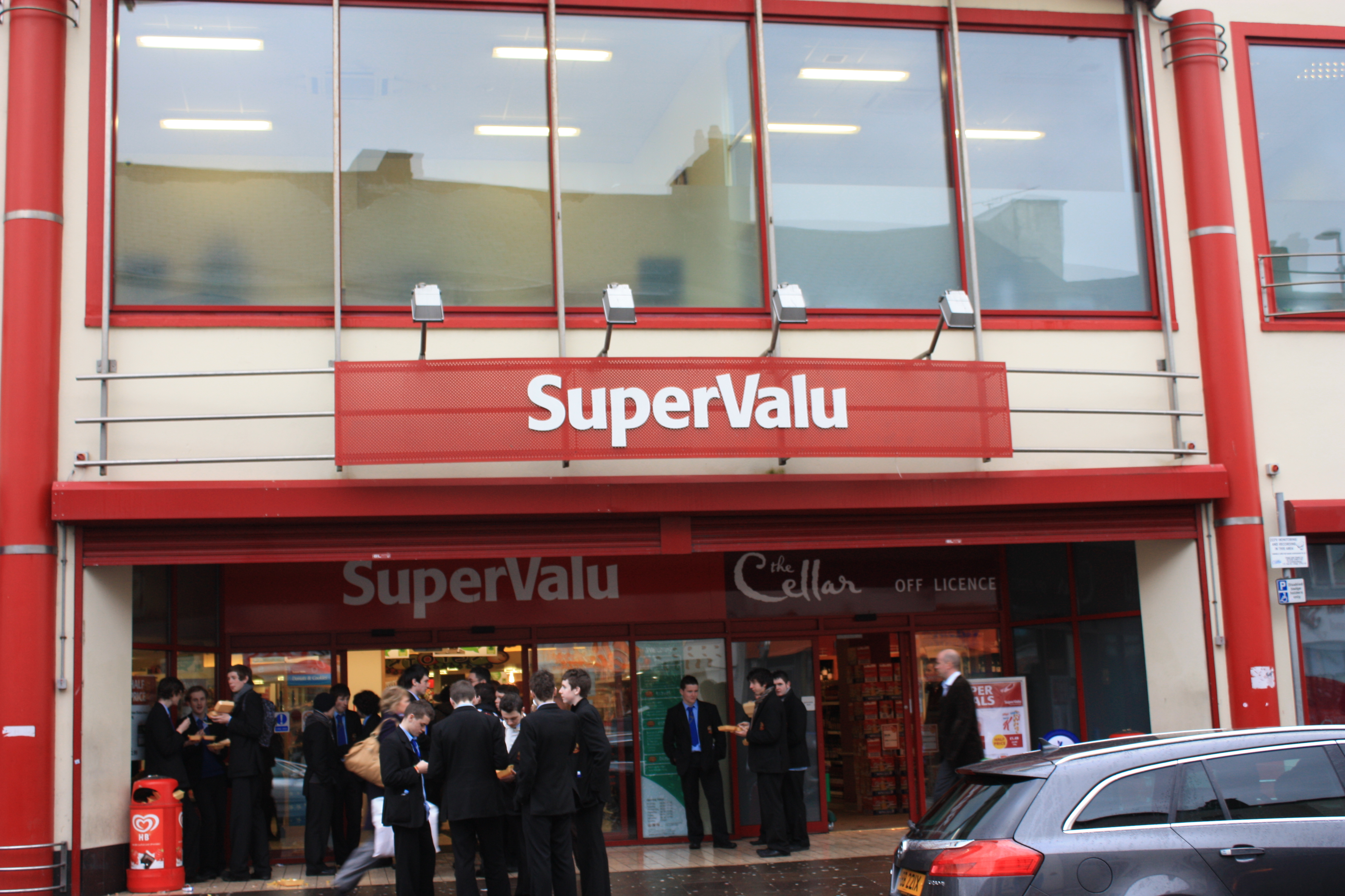 SuperValu supermarket, Market Street, Omagh, County Tyrone, Northern Ireland, January 2010